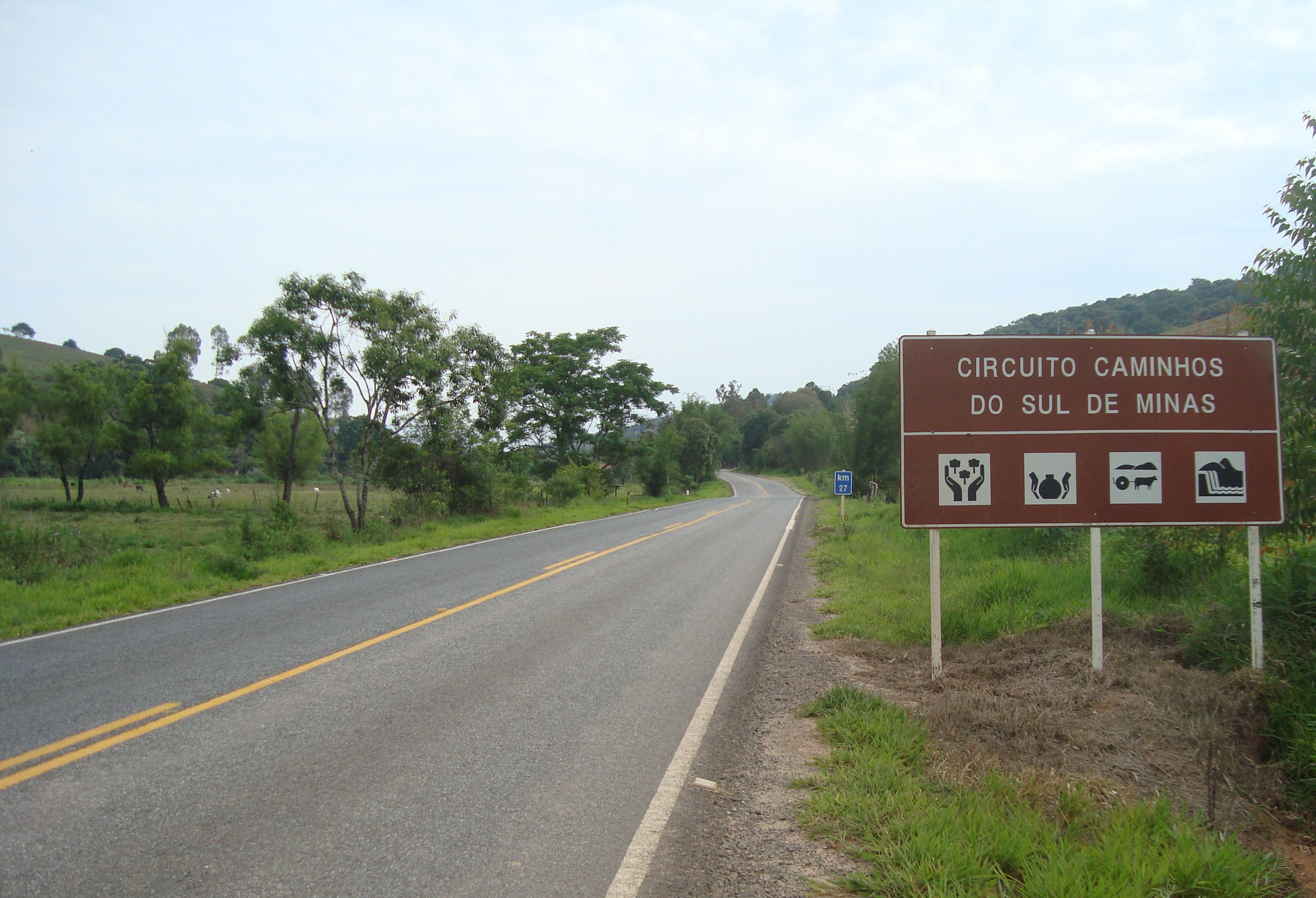 Road MG-295 in Brasópolis, Minas Gerais, Brazil